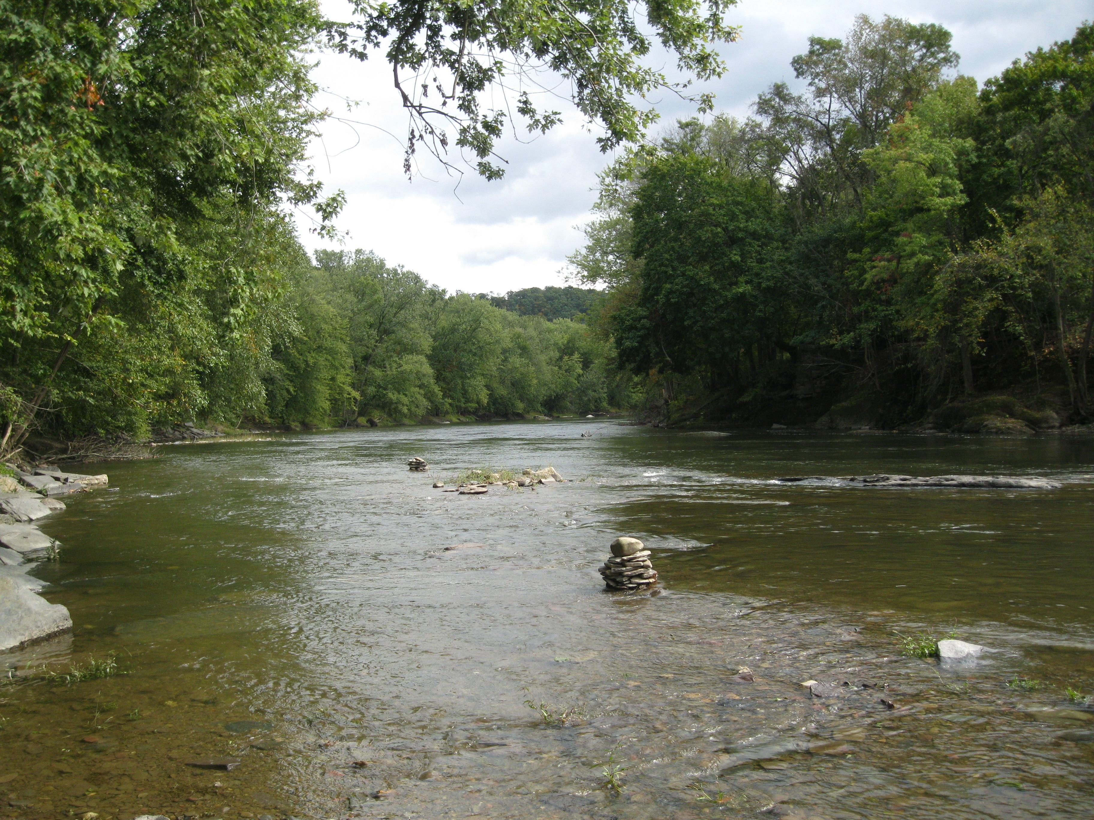 Fishing Creek (North Branch Susquehanna River) from Rupert Covered Bridge No. 56 between the town of Bloomsburg and Montour Township in Columbia County, Pennsylvania, in the United States.